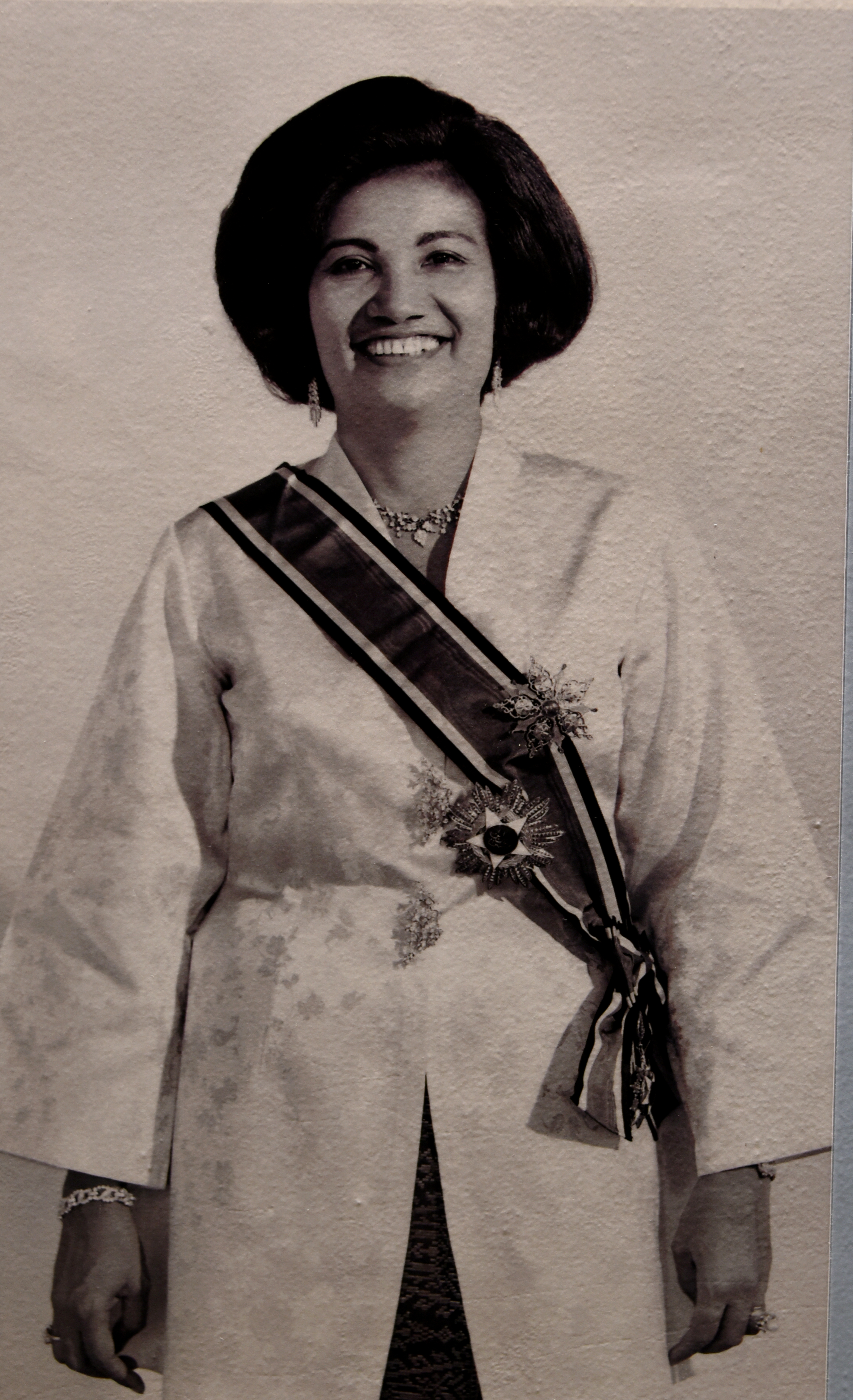 Tuanku Najihah binti Tunku Besar Burhanuddin, Tunku Ampuan Besar of Negeri Sembilan. The name of the photographer was not mentioned. The original image is © the Tuanku Ja'afar Royal Gallery, Seremban, Negeri Sembilan, Malaysia.